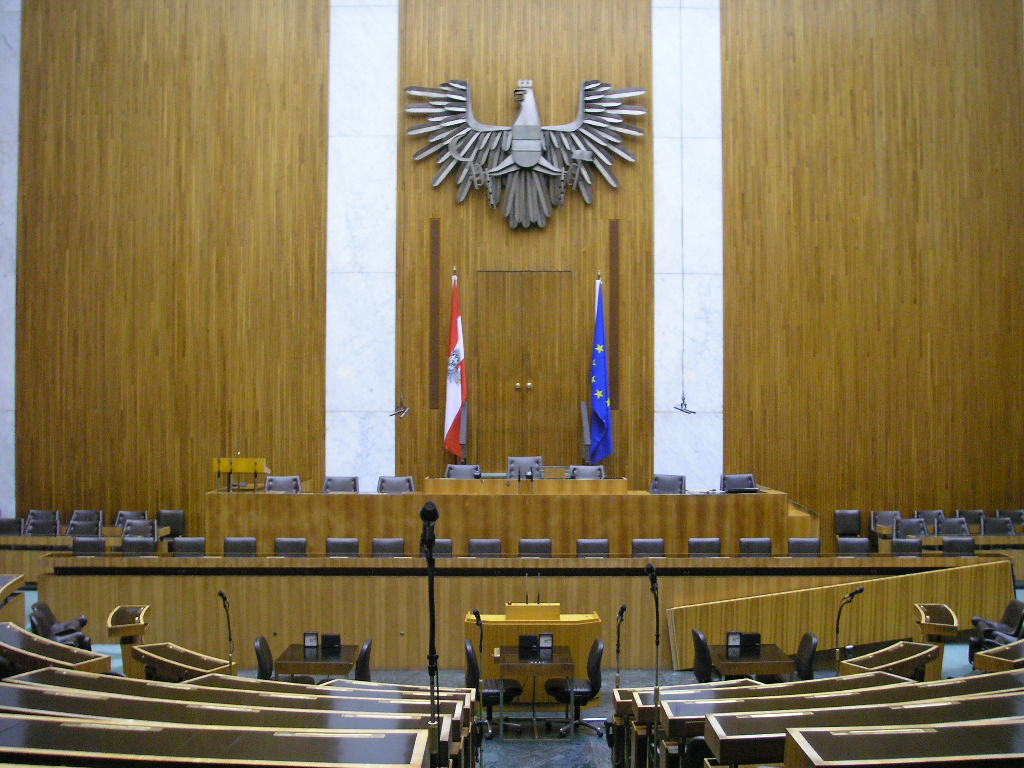 Image of the interior of the parliament building in Vienna. Constructed by Baron Theophil von Hansen.